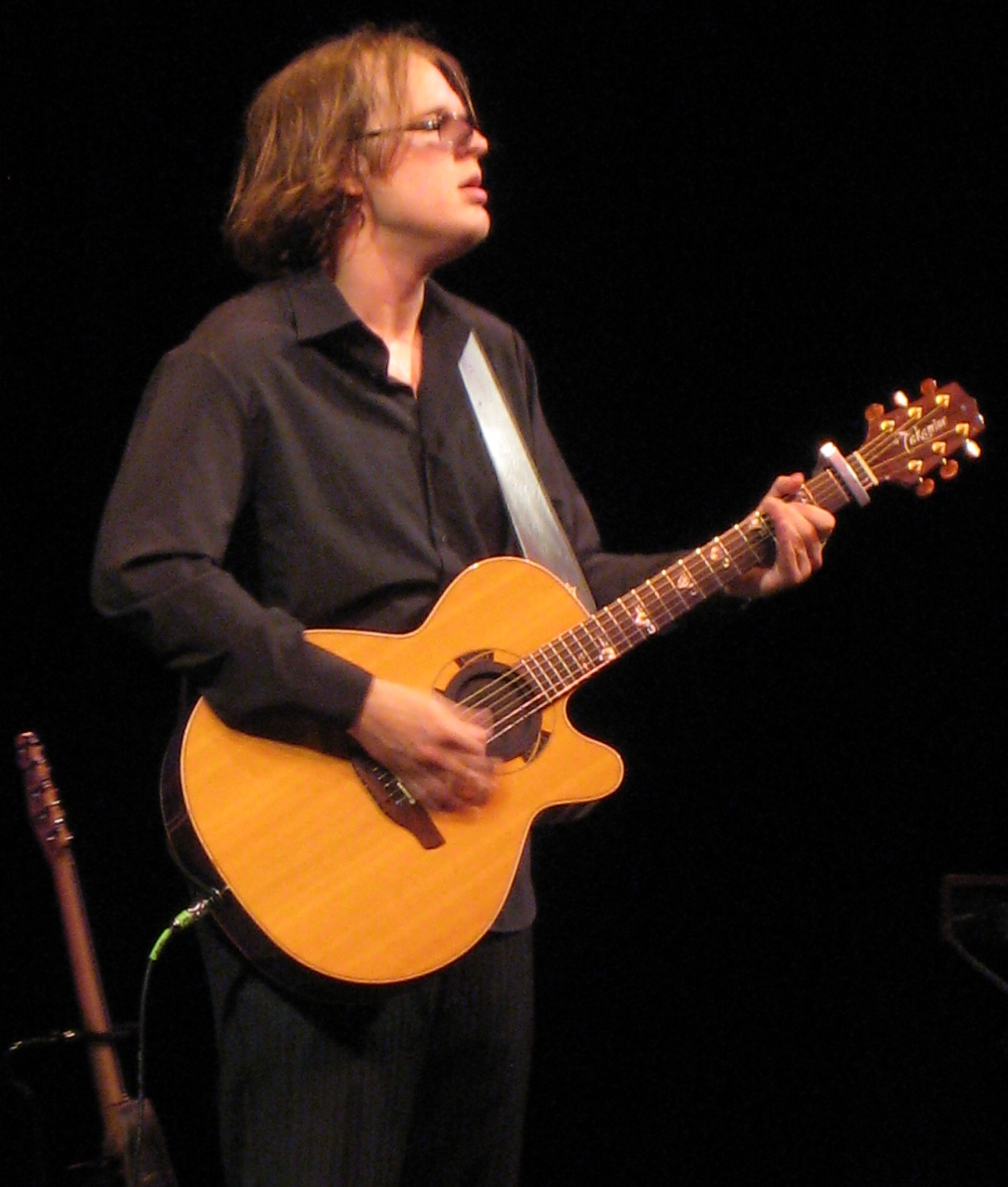 A picture I took at his performance in Stafford, Texas. Amazing concert.